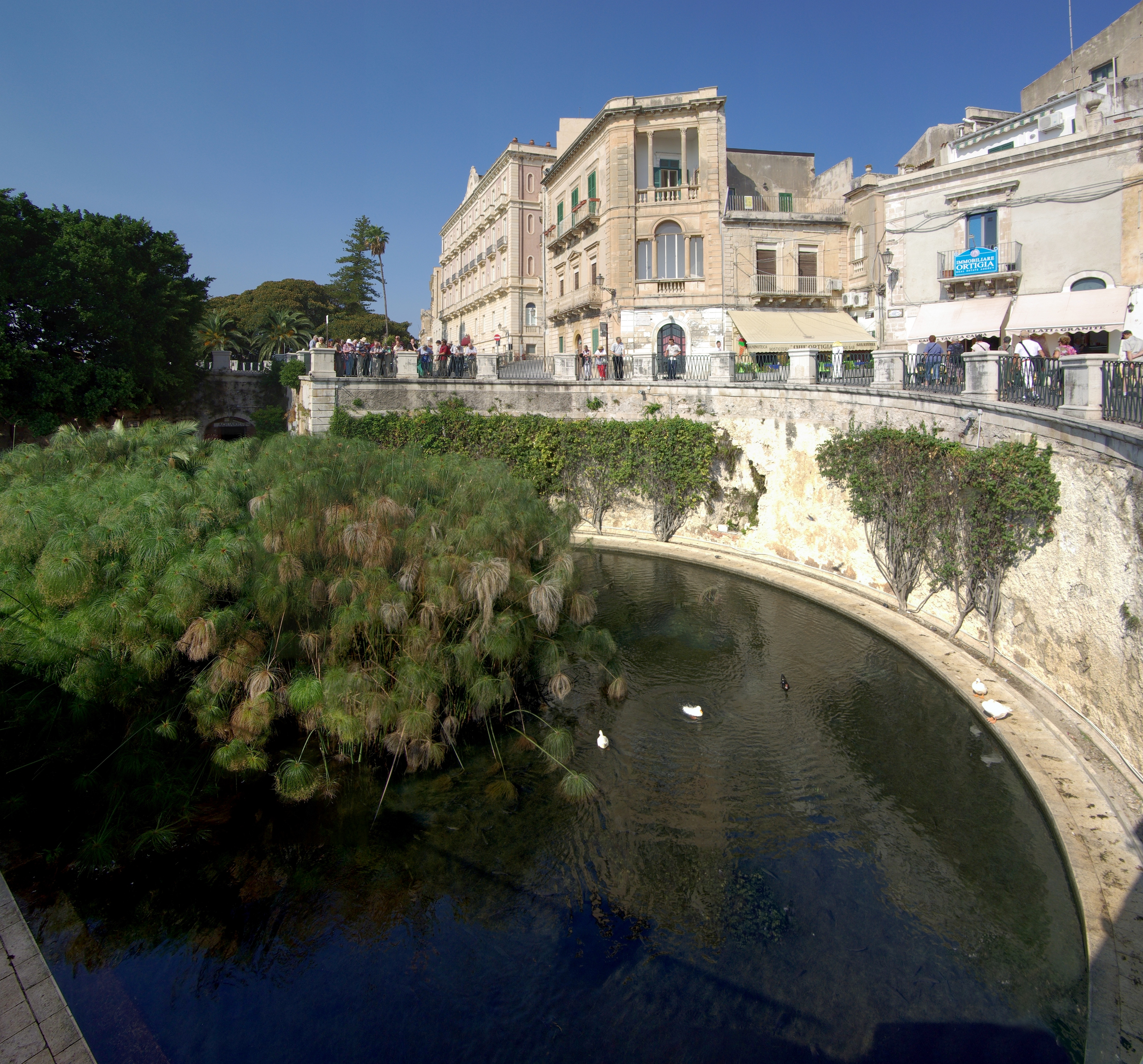 Italy, Sicily, Syracuse, Fonte Aretusa